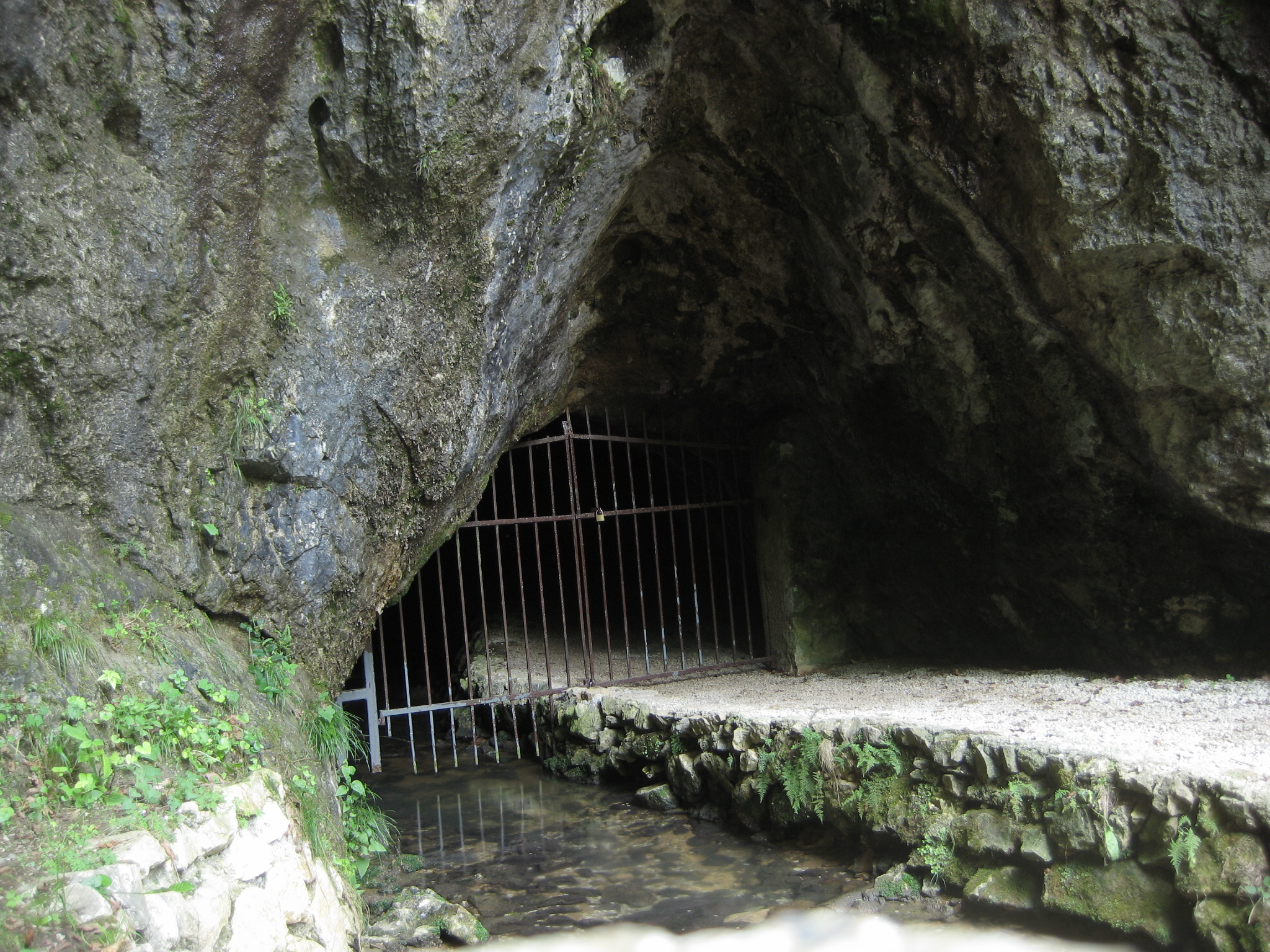 Pekel cave, Slovenia (near Žalec)